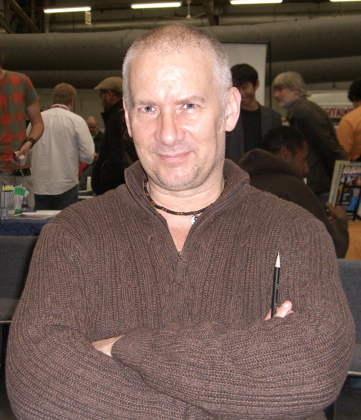 Comic book creator Kevin Maguire at the Big Apple Convention in Manhattan. Photographed by Luigi Novi. This photo may only be used if the photographer is properly credited. (See Licensing information below.)